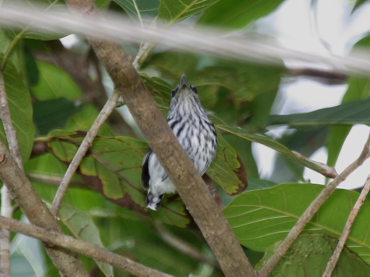 Pacific Antwren (Myrmotherula pacifica)